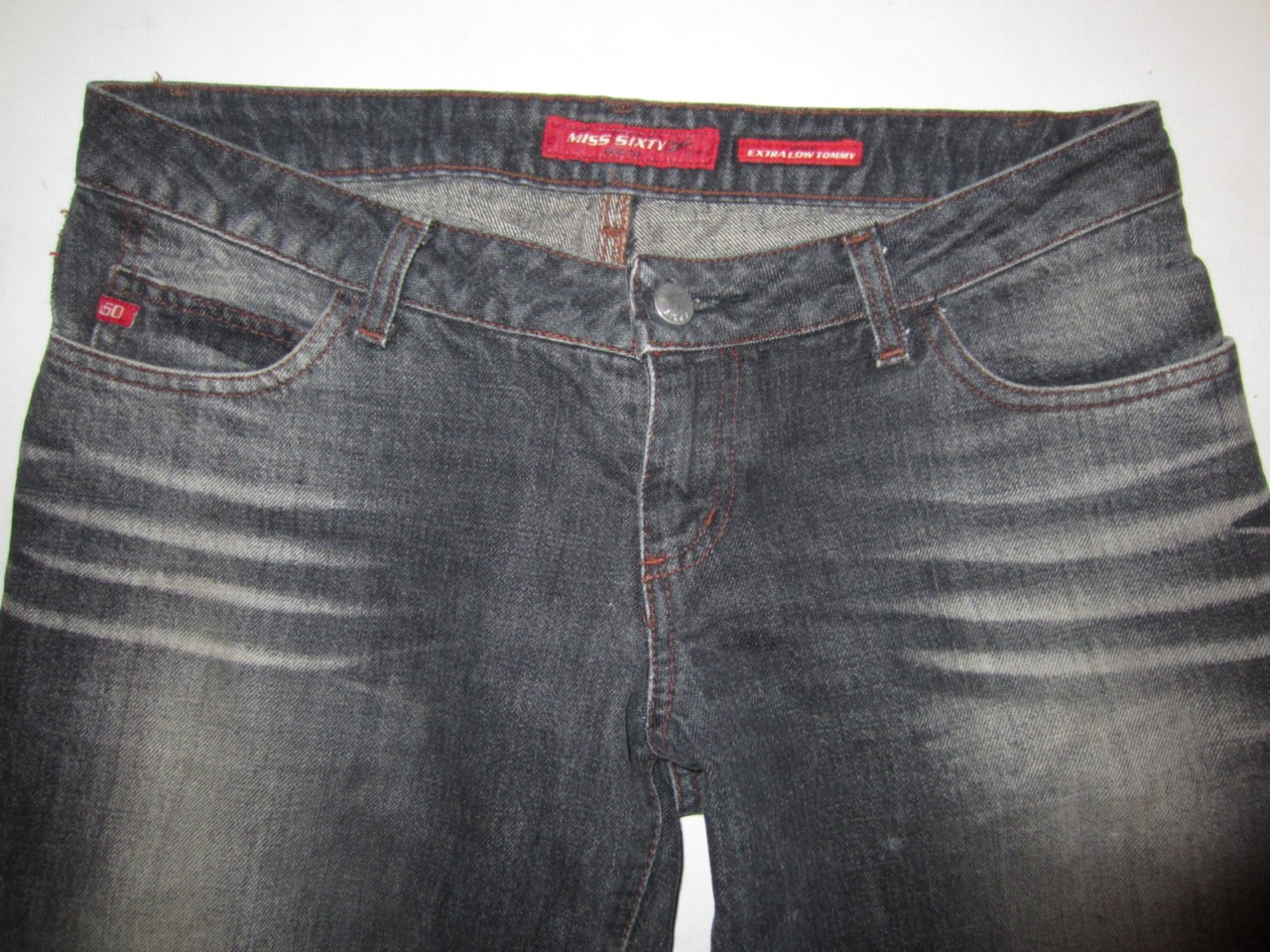 A pair of Miss Sixty Tommy jeans, front view